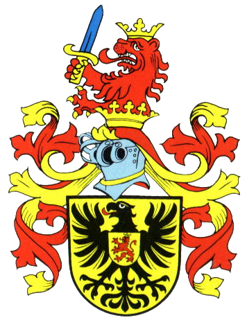 Coat of arms of Überlingen